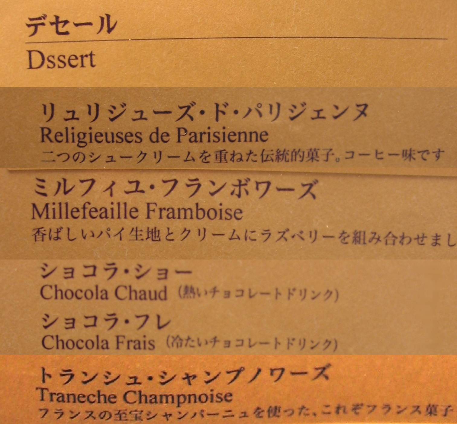 A franponais menu in Kobe. There are many spelling mistakes and other small errors that simply would not make sense if said in French.